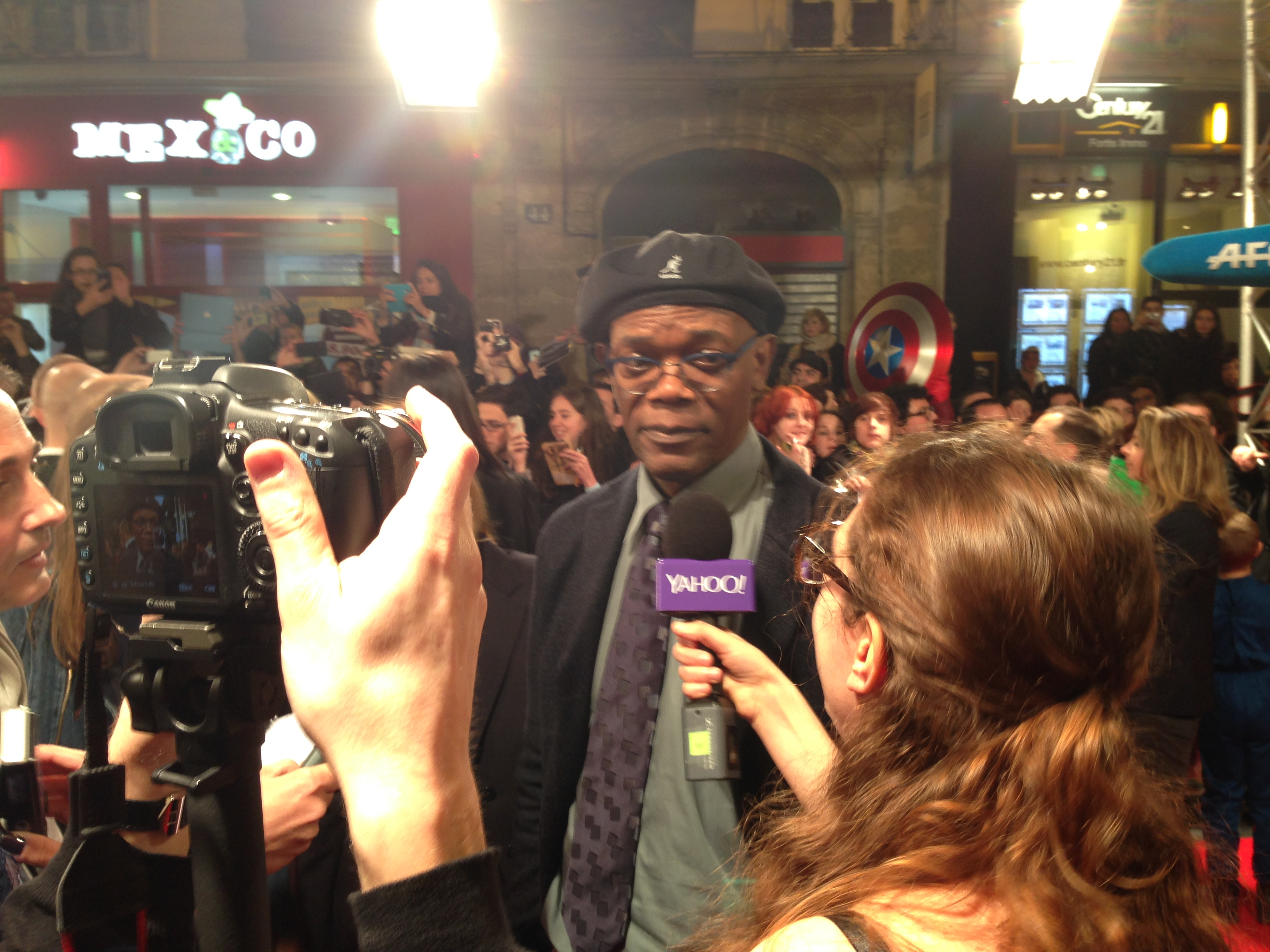 Samuel L. Jackson at the Parisian premiere of Captain America: The Winter Soldier